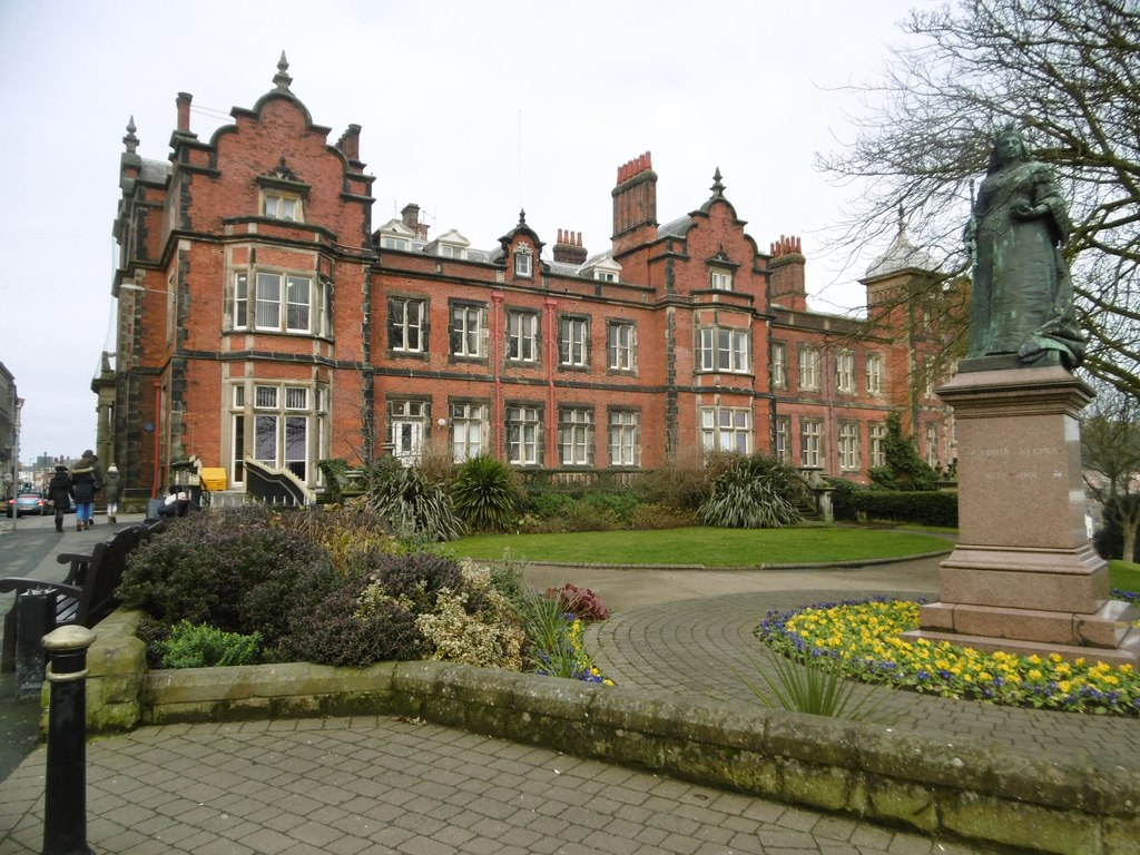 Scarborough Town Hall On St. Nicholas' Street, with a statue of Queen Victoria in the gardens. The building dates from 1903, and is listed (Grade II) by Historic England: Link